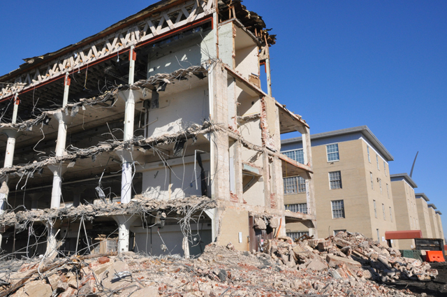 The Navy Annex building in the process of demolition in January 2013. Original caption: An exterior view of Wing 2 through Wing 7.